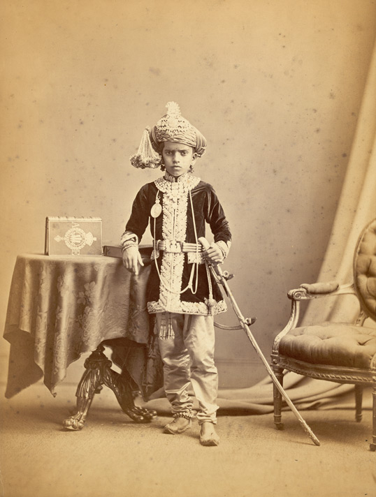 Photograph Sir Sayaji Rao, Gaekwar of Baroda, from the 'Album of portraits and views in Baroda' taken by Bourne & Shepherd in November 1875. The Full-length portrait of Sir Sayaji Rao, the young Gaekwar of Baroda (Vadodara) is taken a few months after his accession to the throne of Baroda on 27 May, 1875. The state of Vadodara in Gujarat, western India was ruled by the Gaekwads from 1734 to 1947. The rule of Sayaji Rao (r.1875-1939) was characterised by unprecedented progress and reform. He initiated a number of social reforms and paid great attention to the economic development of the state. He founded modern textile and tile factories and it is largely due to his policies that Vadodara is today one of the most important centres for the textile, chemical and oil industries in India. In order to develop education he introduced compulsory primary schooling, a library system for adult education and founded the Maharaja Sayajirao University of Vadodara.